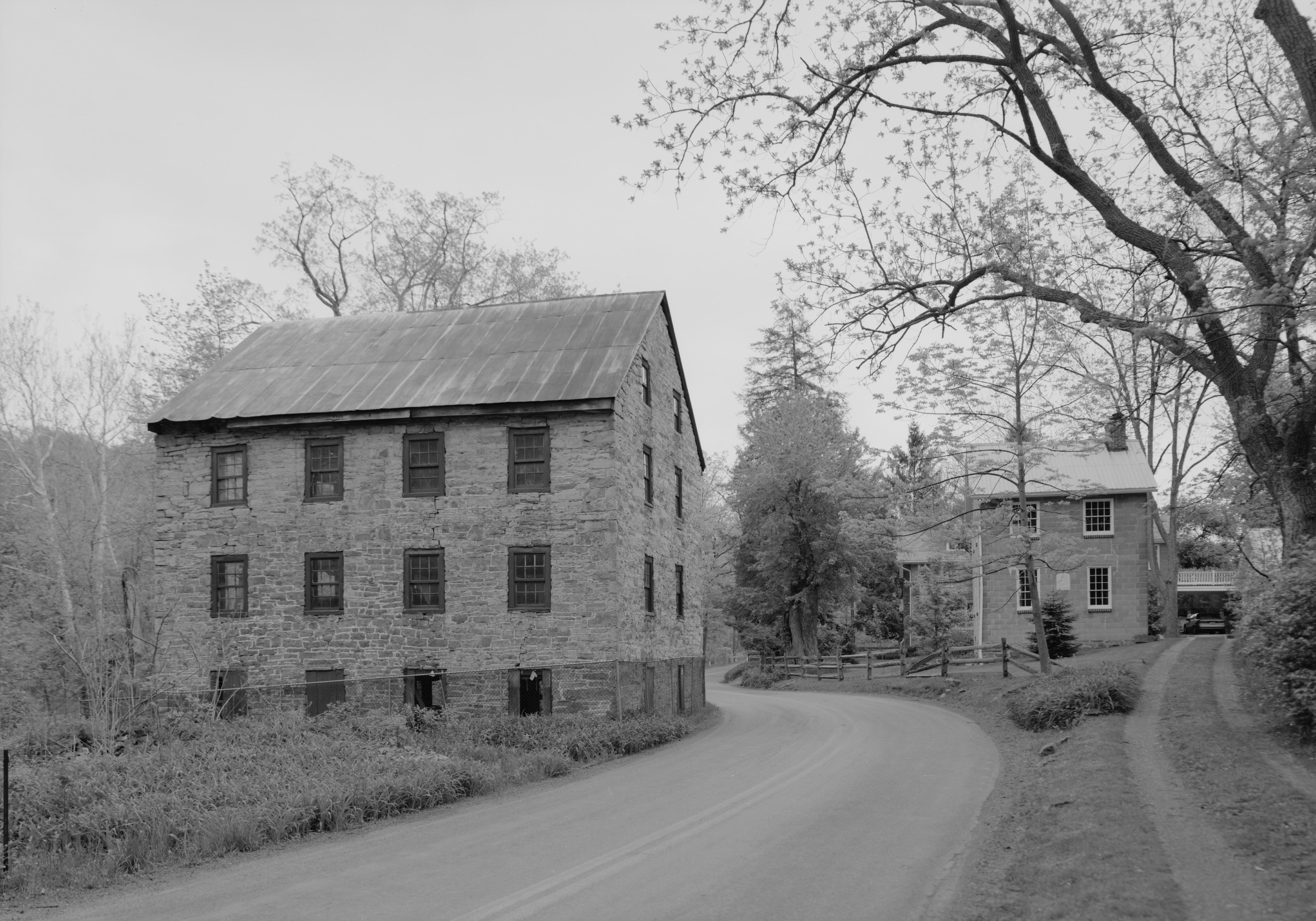 Northern sides of the Juniata Woolen Mill and Newry Manor, located along Lutzville Road and the Raystown Branch of the Juniata River west of Everett in Snake Spring Township, Bedford County, Pennsylvania, United States. Built in 1805 and 1803 respectively, the buildings are listed together on the National Register of Historic Places.